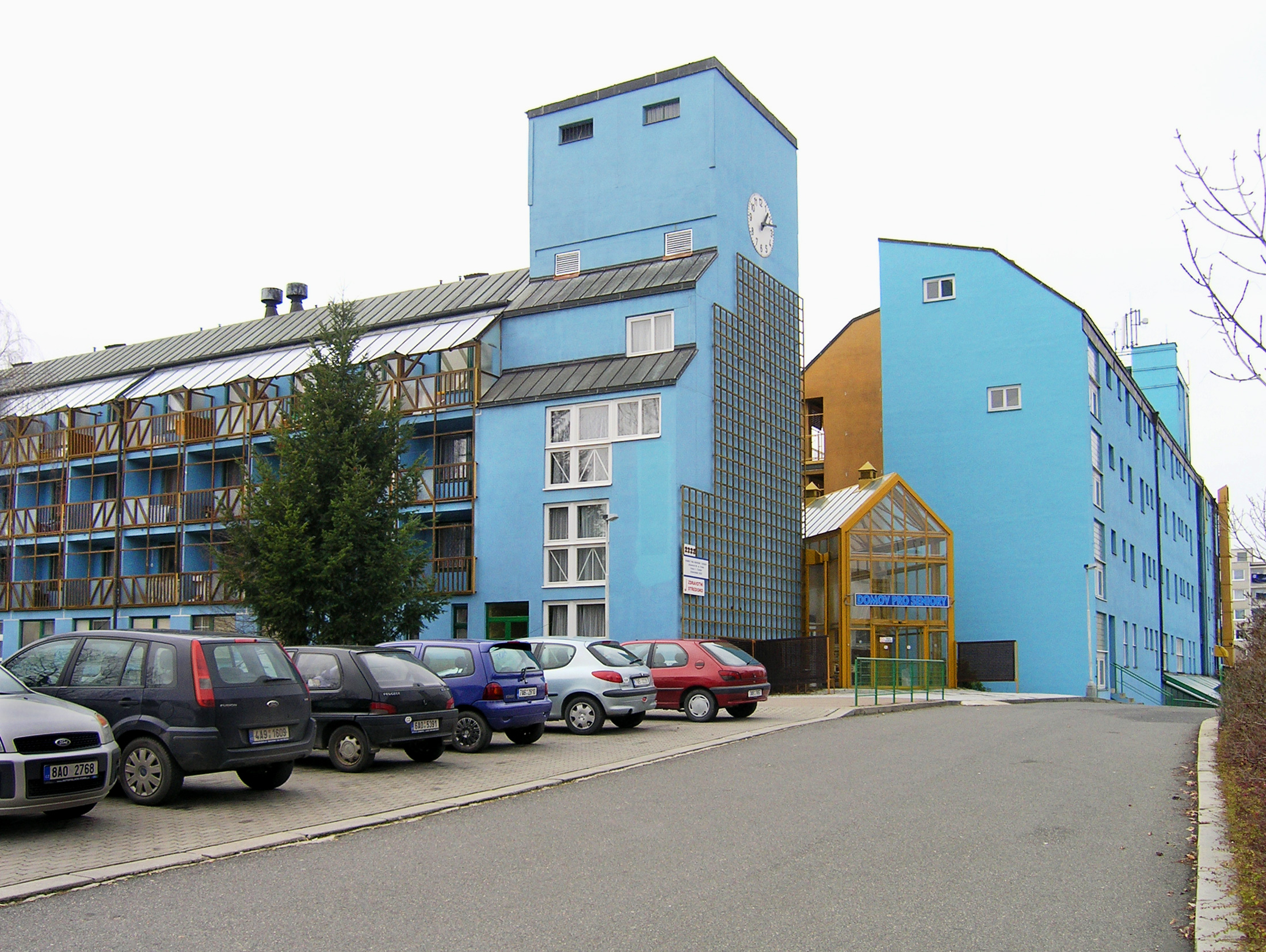 Retirements homes at Donovalská street in Chodov, Prague